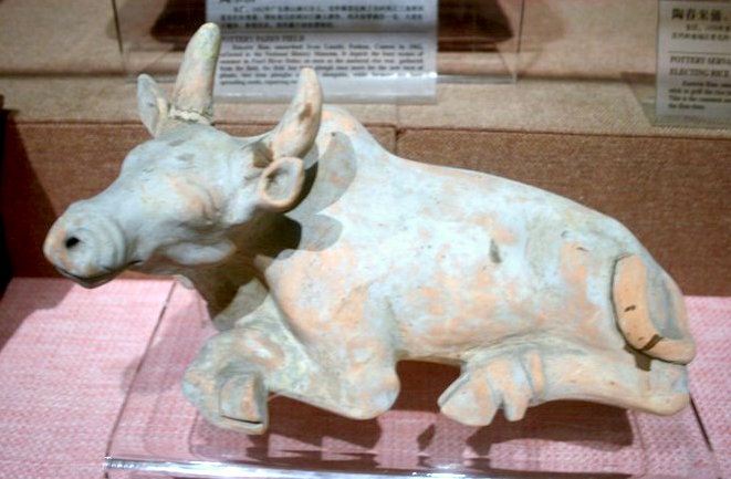 A Chinese pottery model of a sitting bull, from the Western Han period (202 BCE – 9 CE).